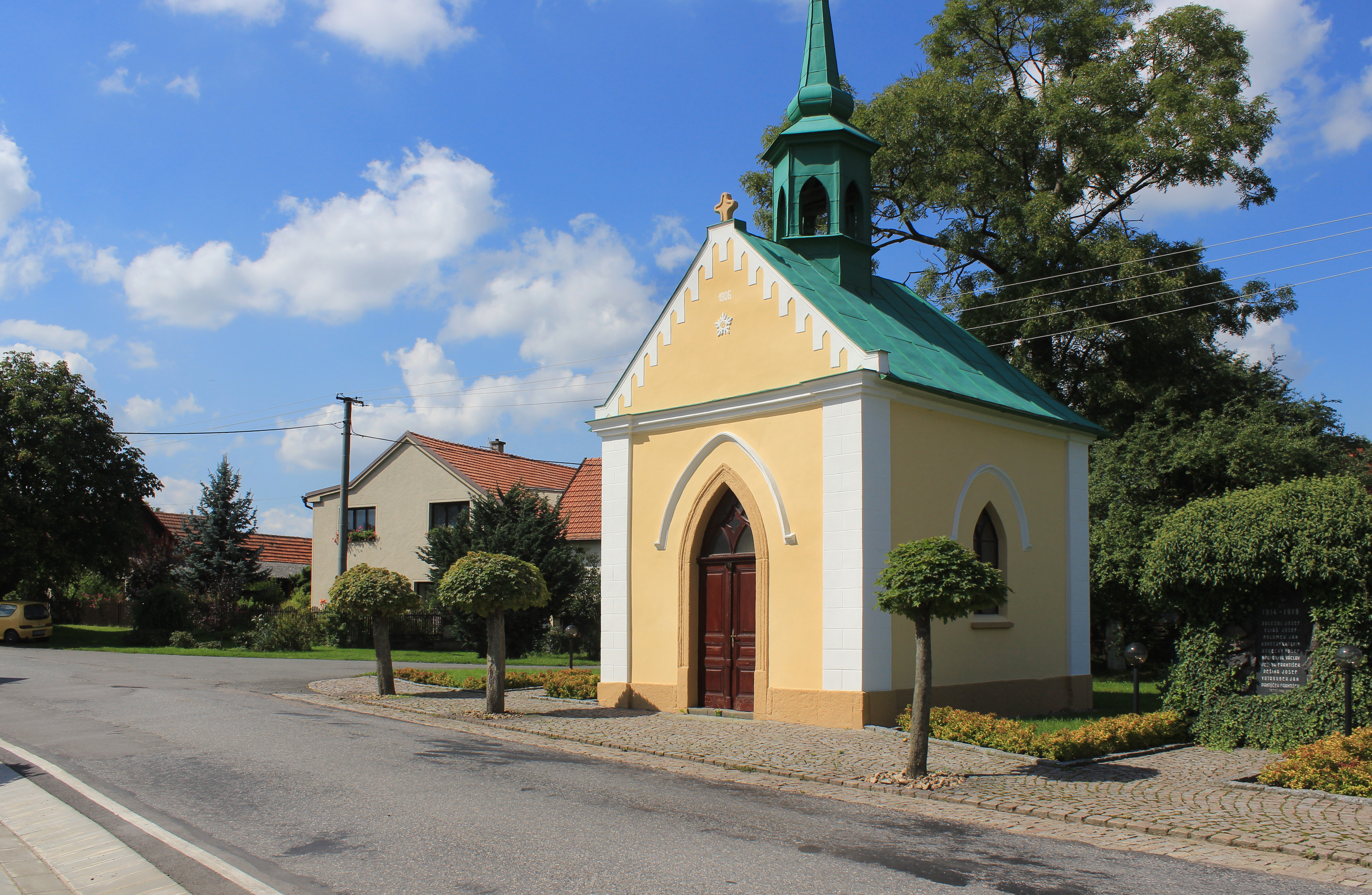 Common in Nová Ves u Jarošova, Czech Republic.